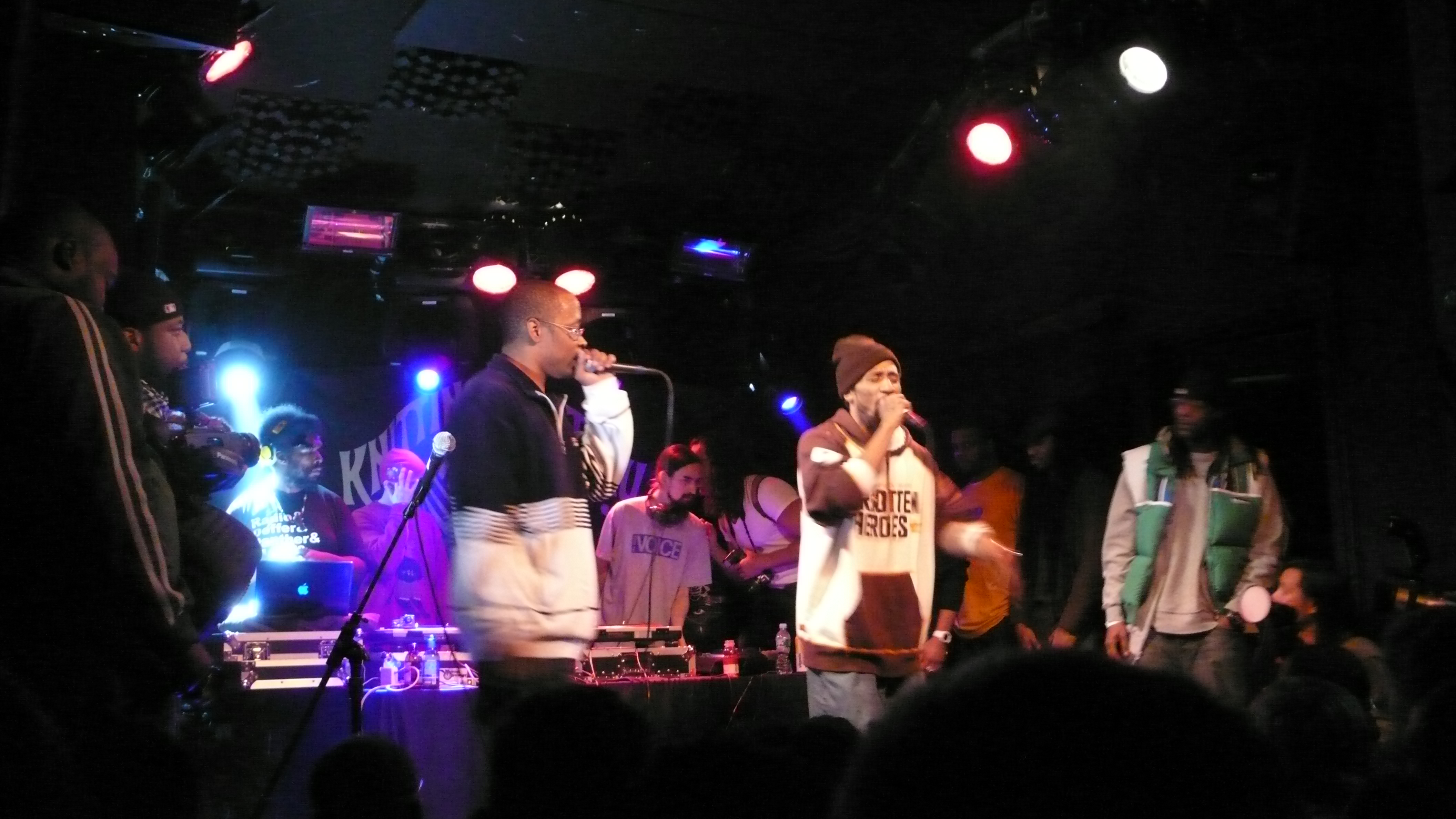 Brand Nubian performing live at the Knitting Factory.